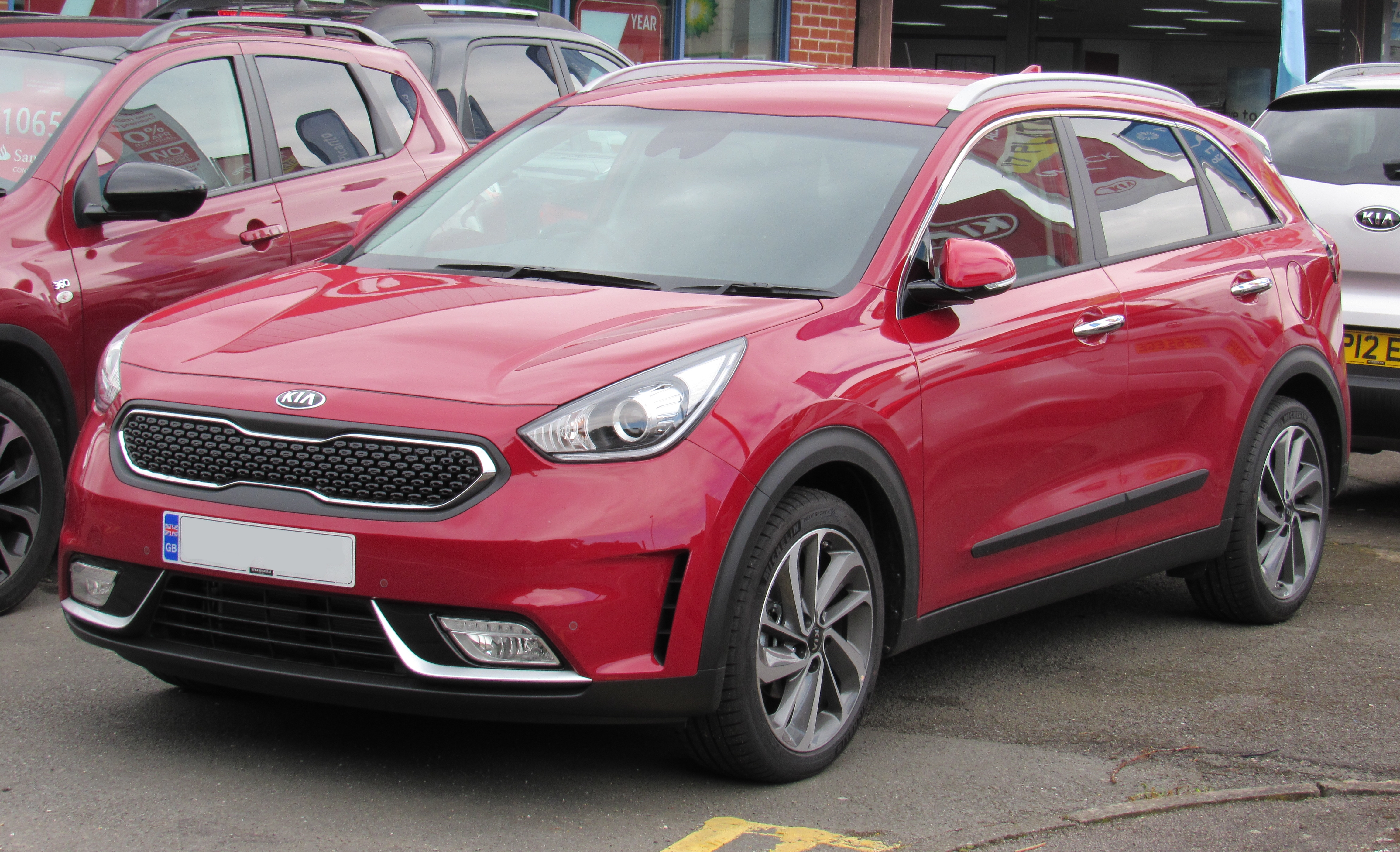 2017 Kia Niro 3 S-A 1.6 Taken in Warwick